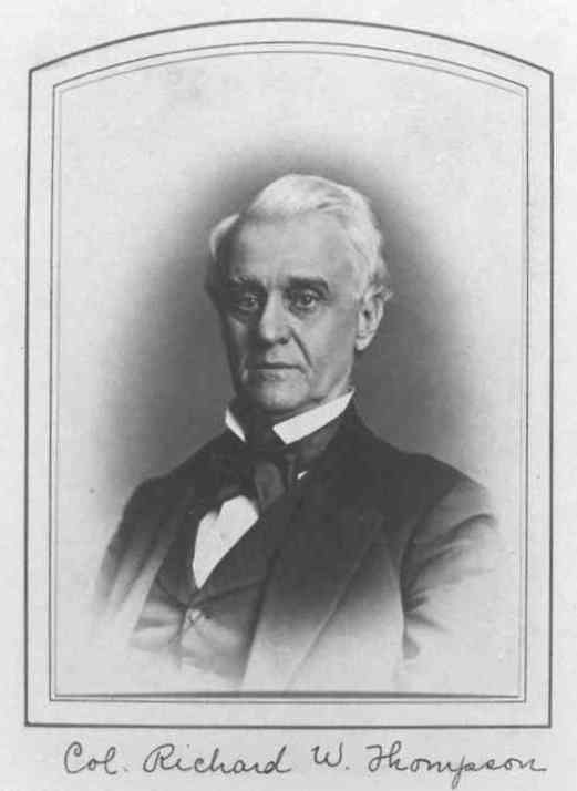 Colonel Richard W. Thompson (1809-1900)